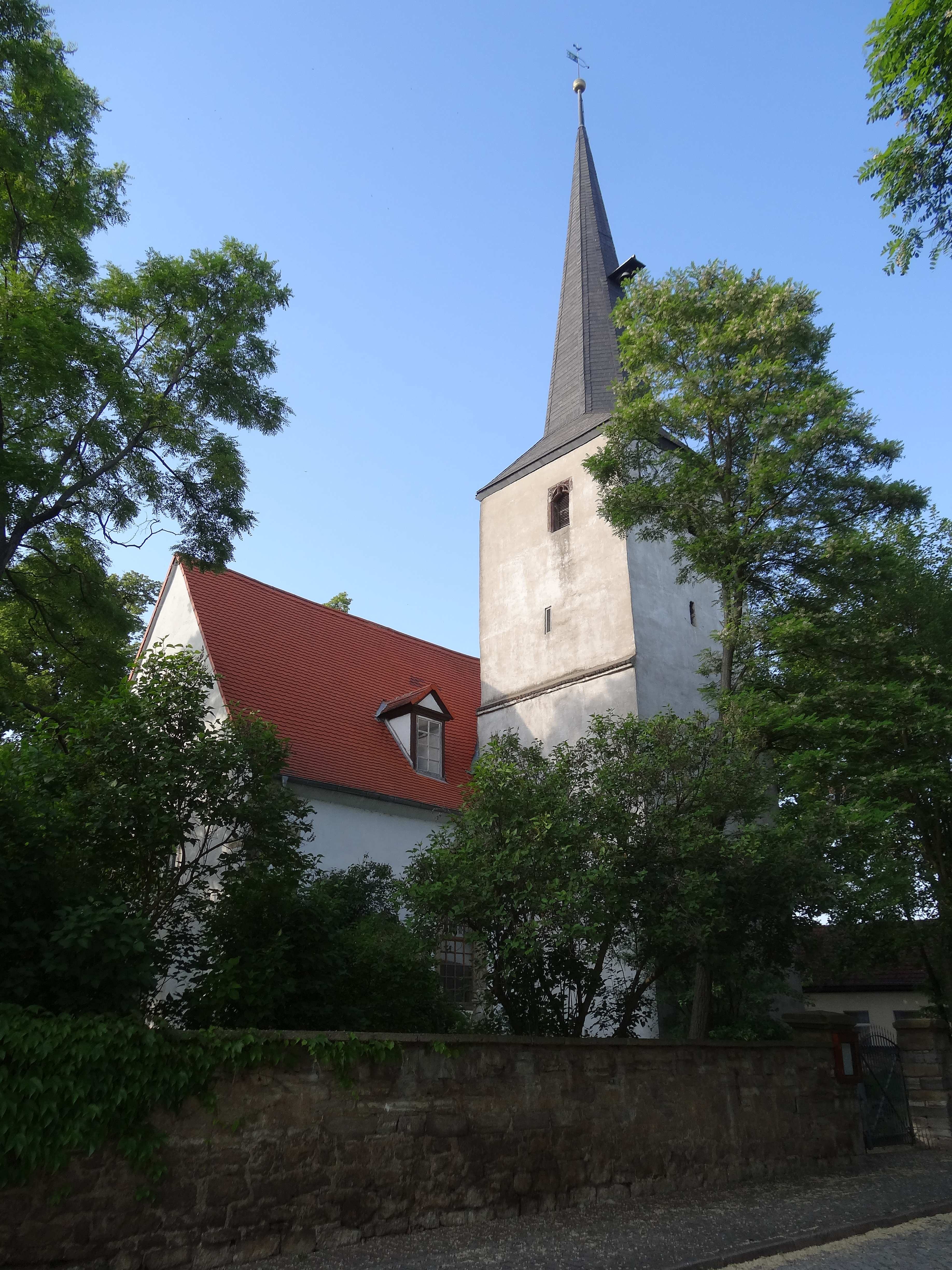 Church in Kleinmölsen, Thuringia, Germany